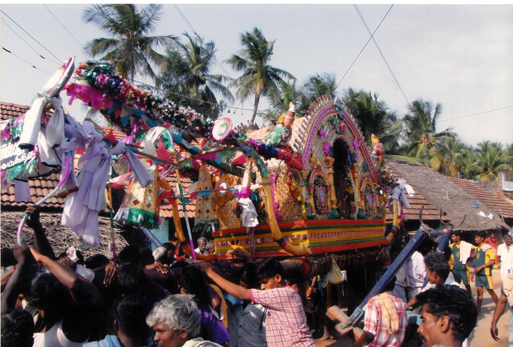 திருப்பூந்துருத்தி பல்லக்கு, திருவையாறு சப்தஸ்தான விழா, ஏப்ரல் 2008